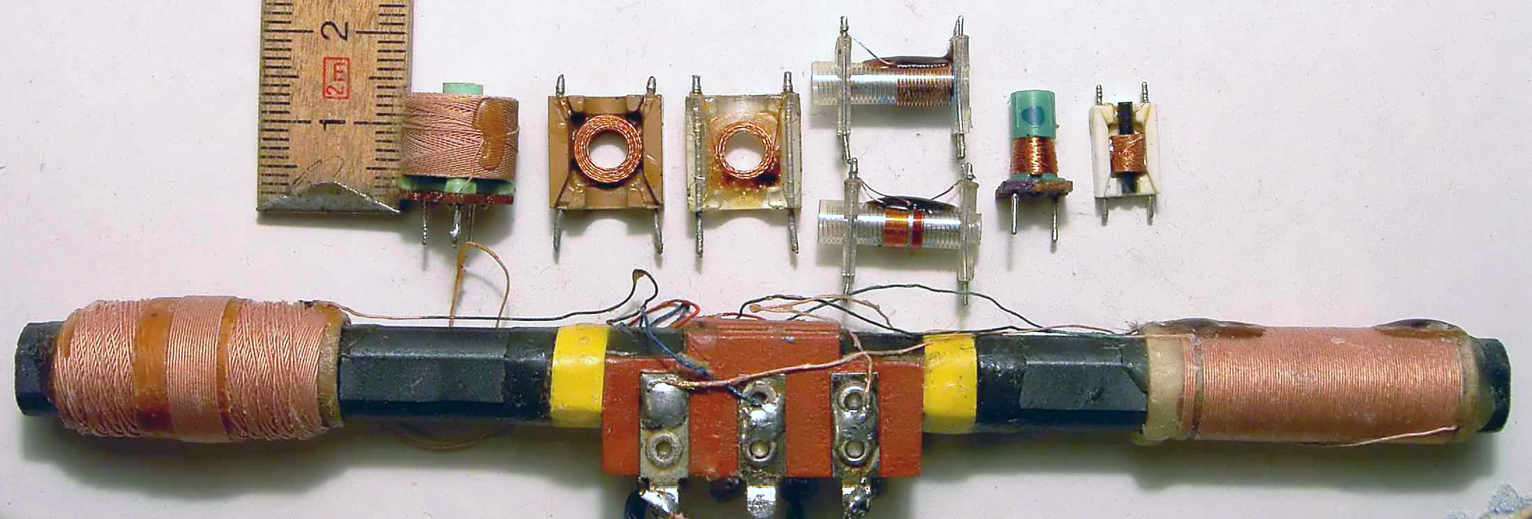 Ferrite rod antenna loopstick (bottom) and RF chokes, coils and IF transformers (top) used in radio equipment. The ferrite antenna has two windings, to receive both the LW and MW bands. The loopstick and chokes at top right are wound with litz wire in a basket weave pattern, with adjacent winding layers at different angles, to reduce resistance due to proximity effect and skin effect.